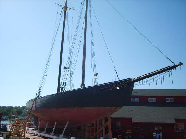 L. A. Dunton was hauled out in late 2008 so that routine repairs could be made on her hull.